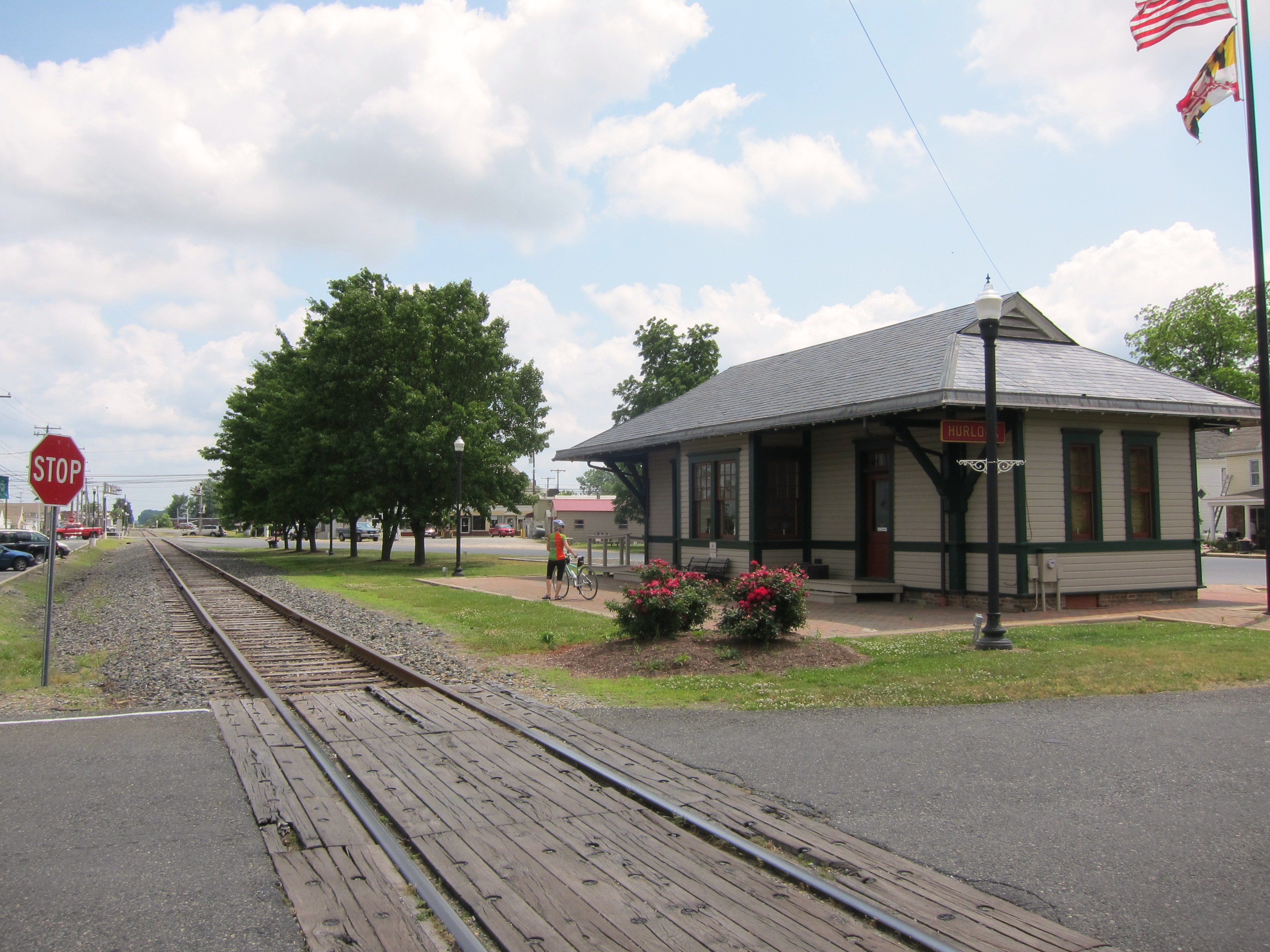 Restored Hurlock Train Station